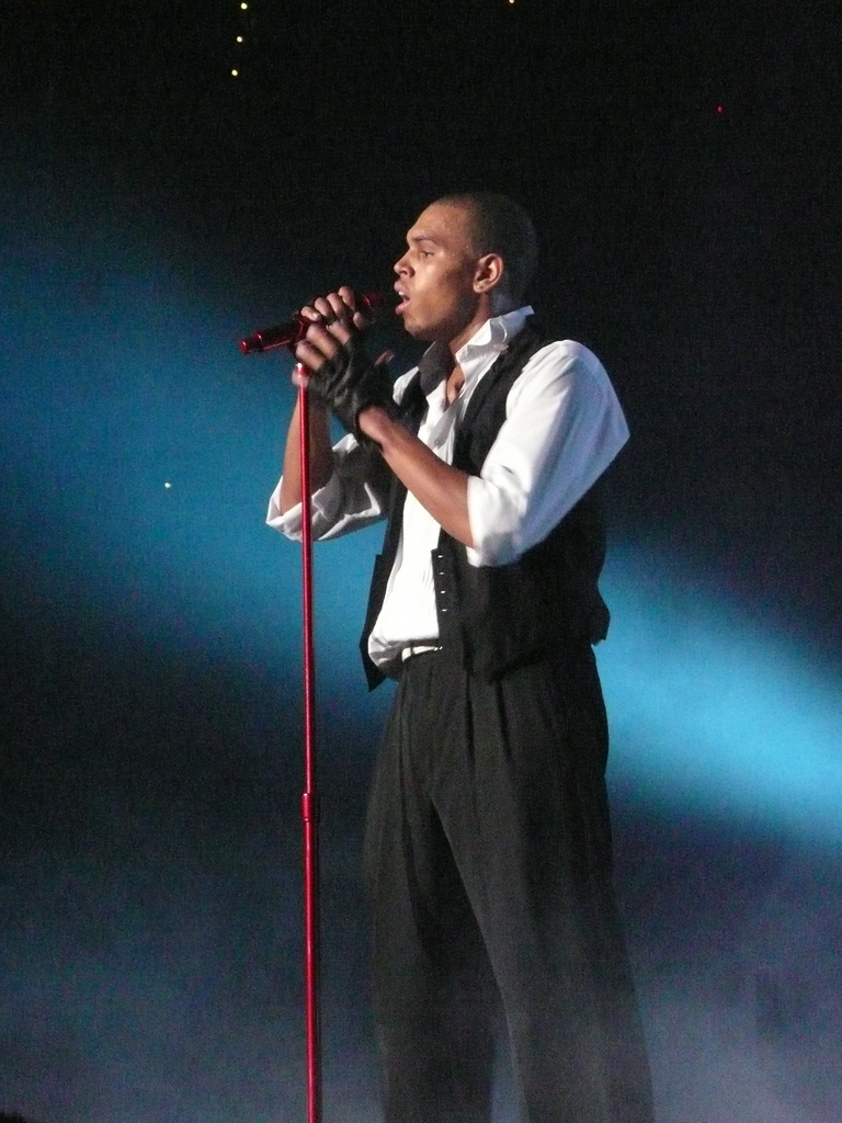 Rihanna and Chris Brown concert. Brisbane Entertainment Centre. November 1st 2008